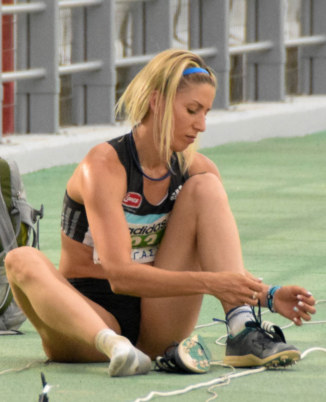 Long jumper Voula Papachristou